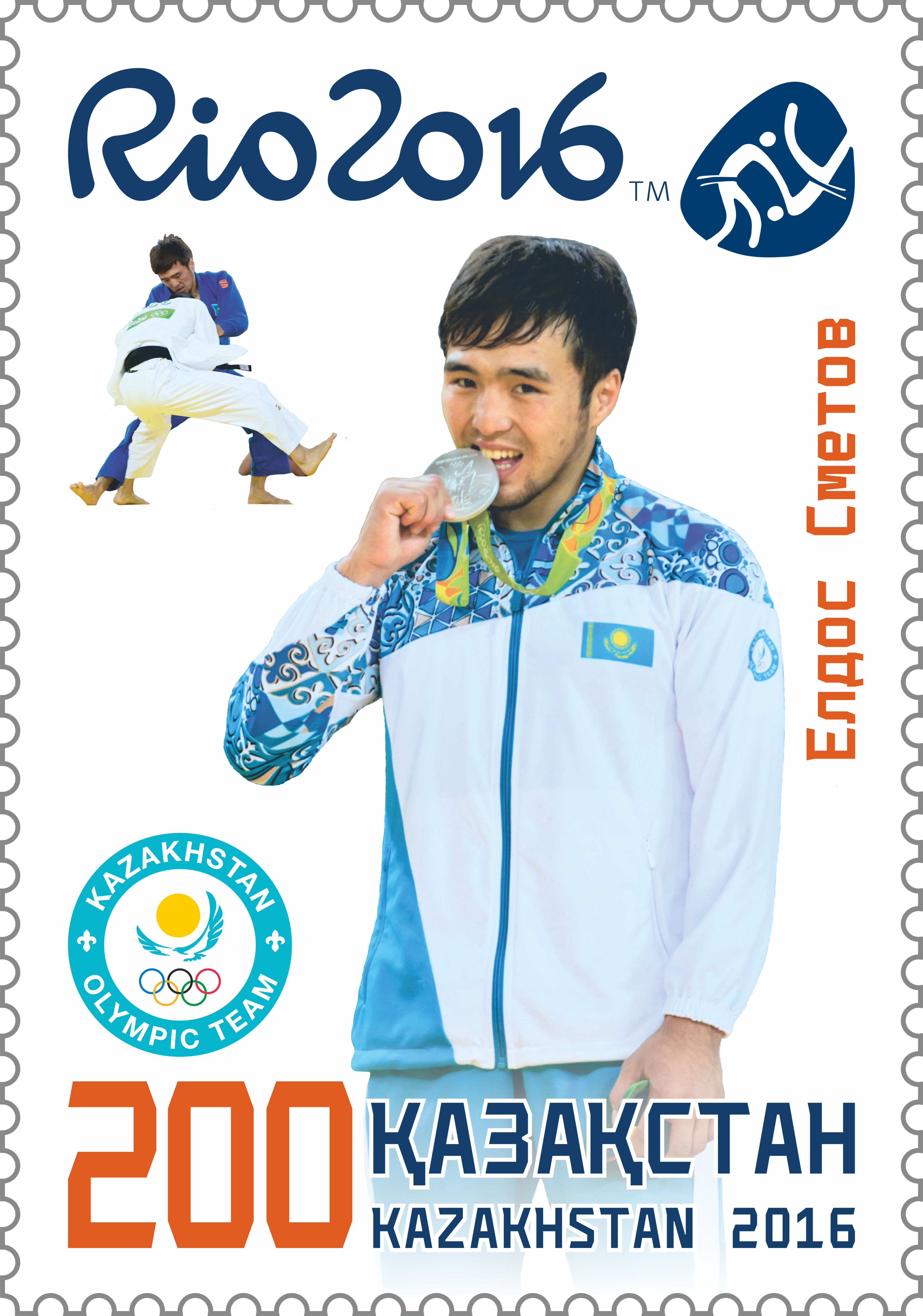 1004-1011. Sports. The XXXI Olympic Games in Rio de Janeiro.